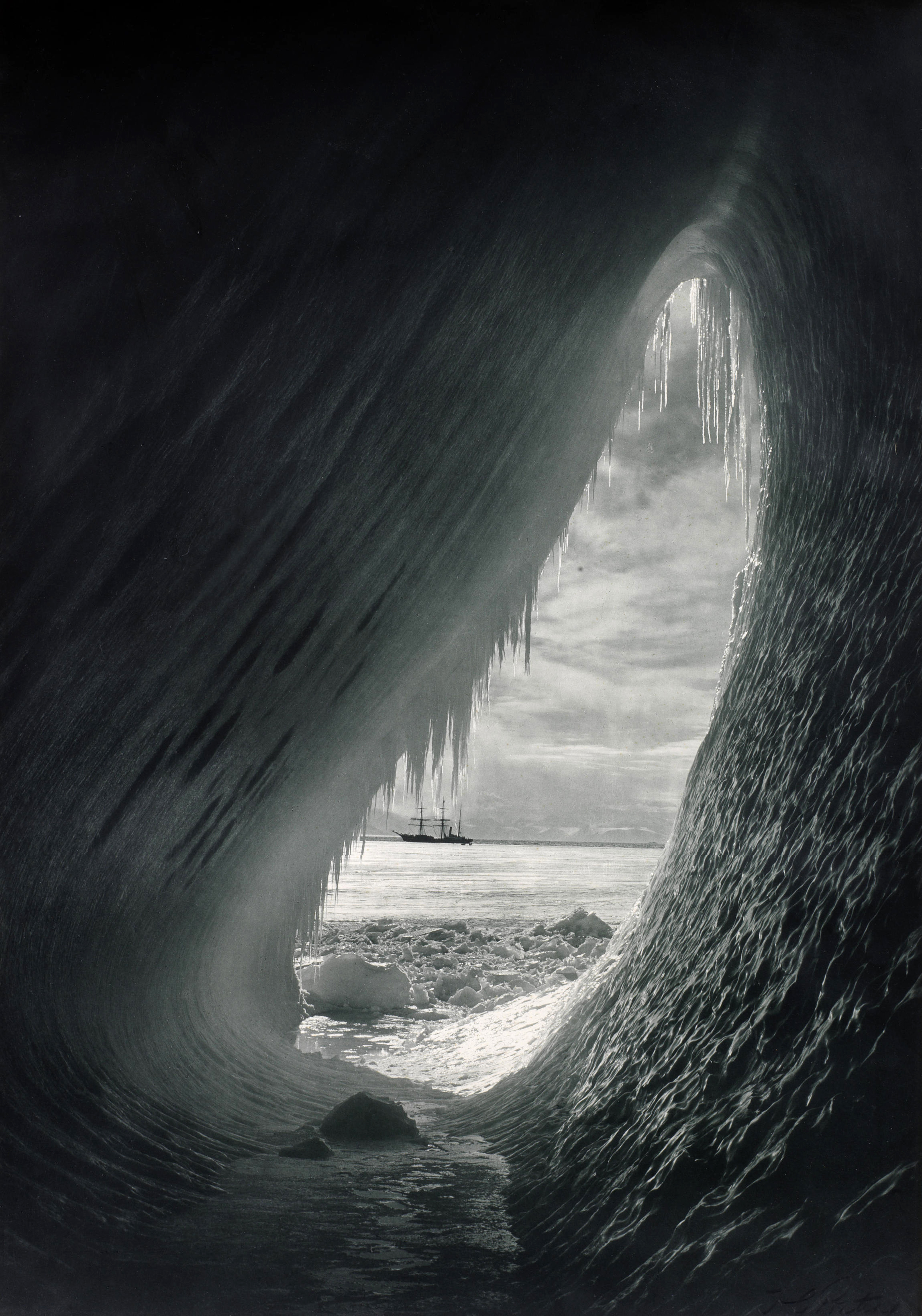 Grotto in an iceberg with the Terra Nova in the background, 5th January 1911 Green toned carbon print, signed in pencil lower right. The reverse with the photographer's copyright and 'British Antarctic Expedition' stamps. Also annotated in ink and pencil in other hands.